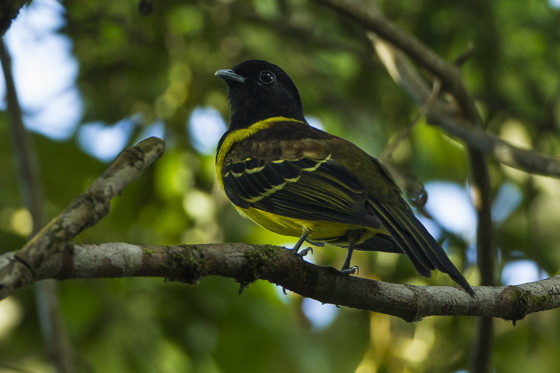 Hooded Berryeater - Intervales - Brazil_S4E0154